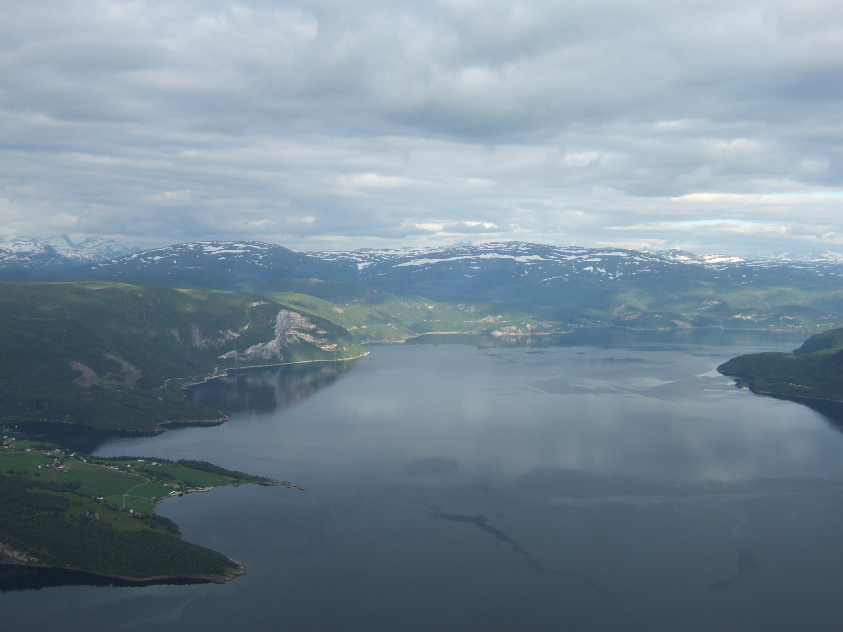 Skjerstadfjorden in Nordland, Norway.